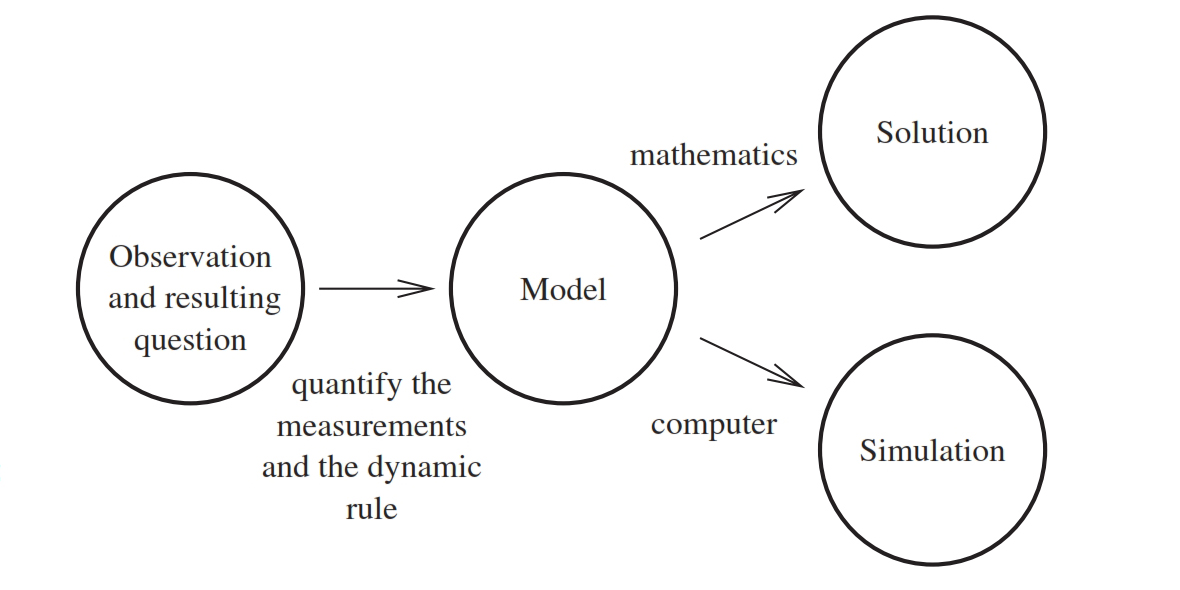 The use of applied mathematics to answer scientific questions